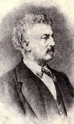 Platon Alexandrovich Chikhachyov, last name also spelled Chikhachev or Tchihatchev (1812-1892) was Russian traveler and founding member of Russian Geographical Society